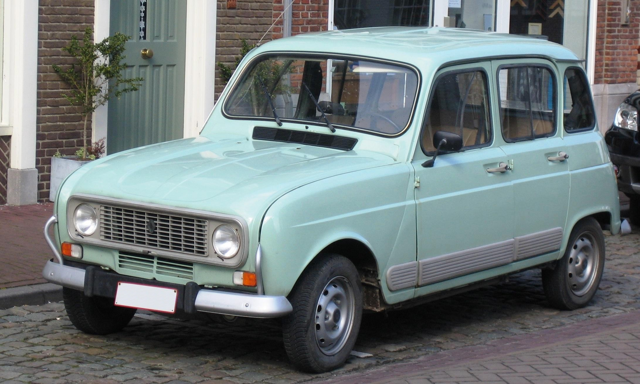 1980 Renault 4 from Belgium in Weststraat, Aardenburg